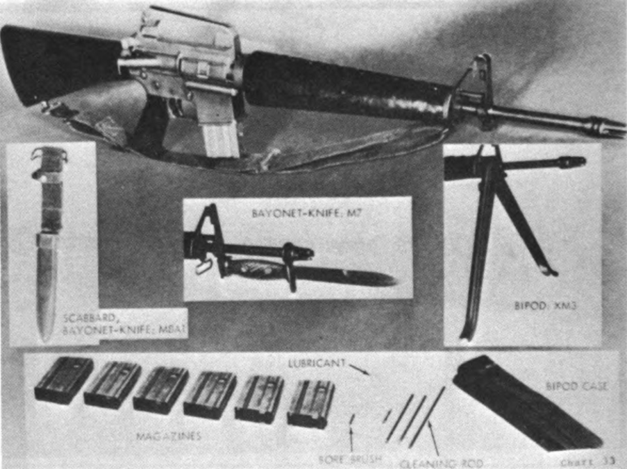 M16A1 rifle which is currently the standard rifle for the U.S. soldier, with full accessory kit: bipod, XM3; bipod case; scabbard, bayonet-knife, M8A1; six magazines; lubricant; bore brush; cleaning rod